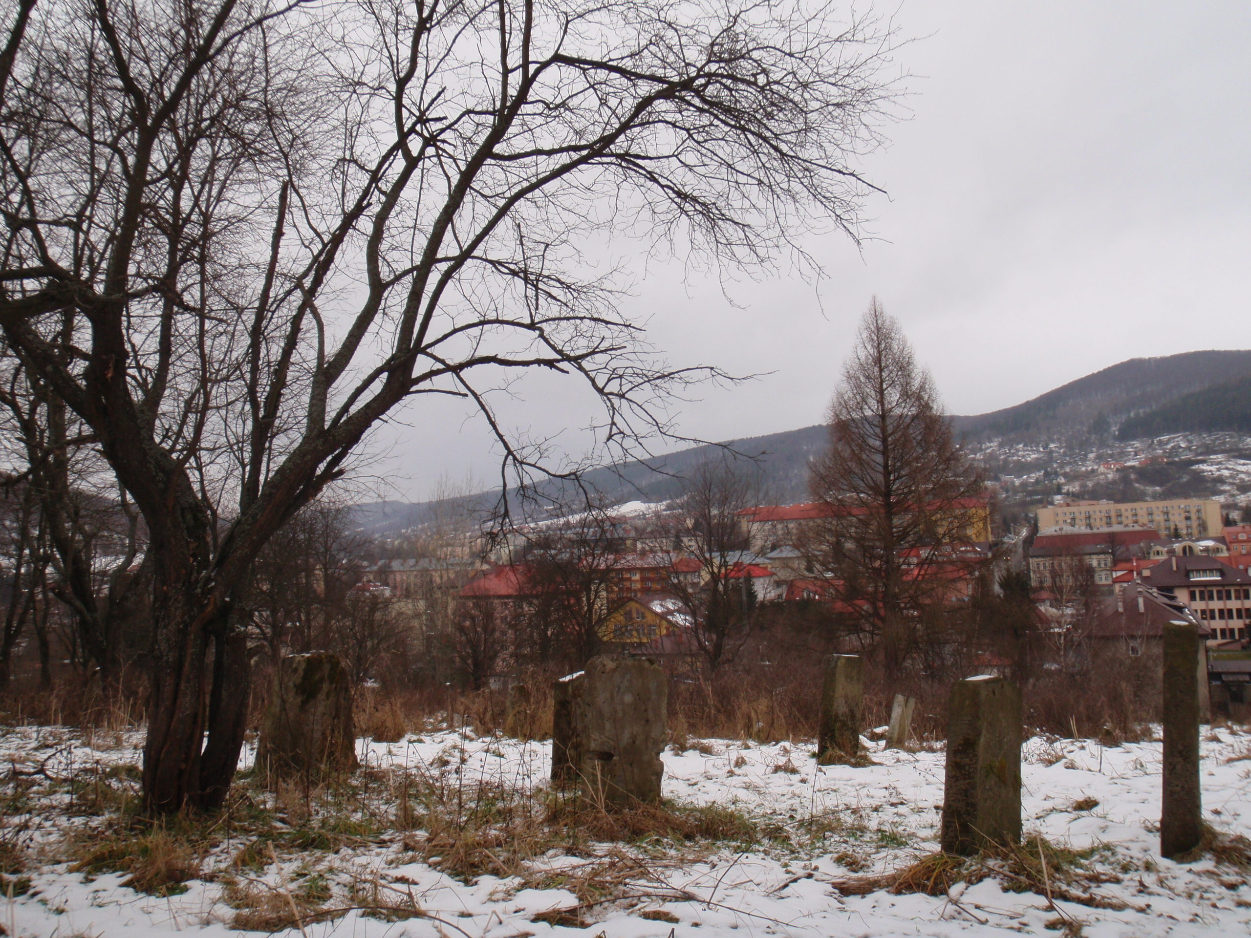 Jewish cemetery in Ustrzyki Dolne